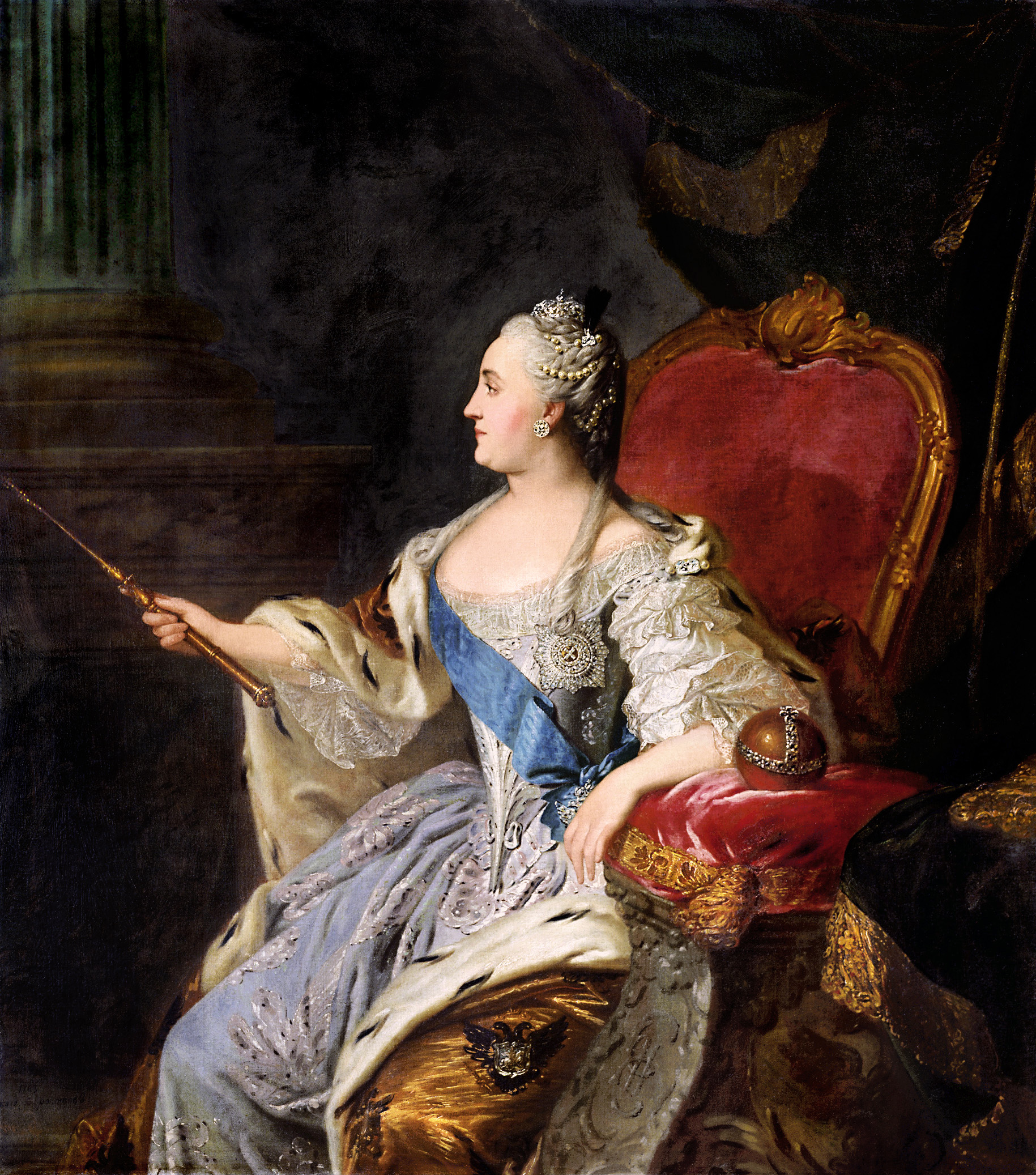 Oil on canvas portrait of Empress Catherine the Great by Russian painter Fyodor Rokotov